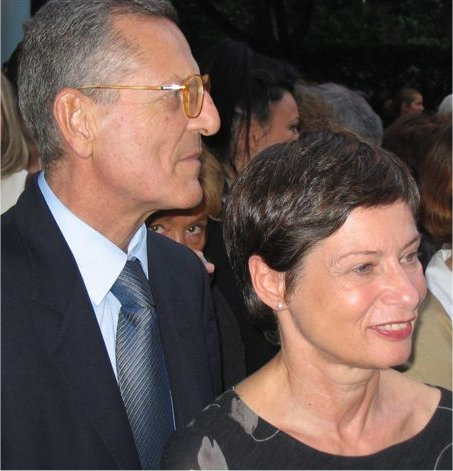 Roberto Salvadori(b. 1943), Italian essayist and writer and Barbara Toruńczyk (b. 1946), Polish journalist and essayist